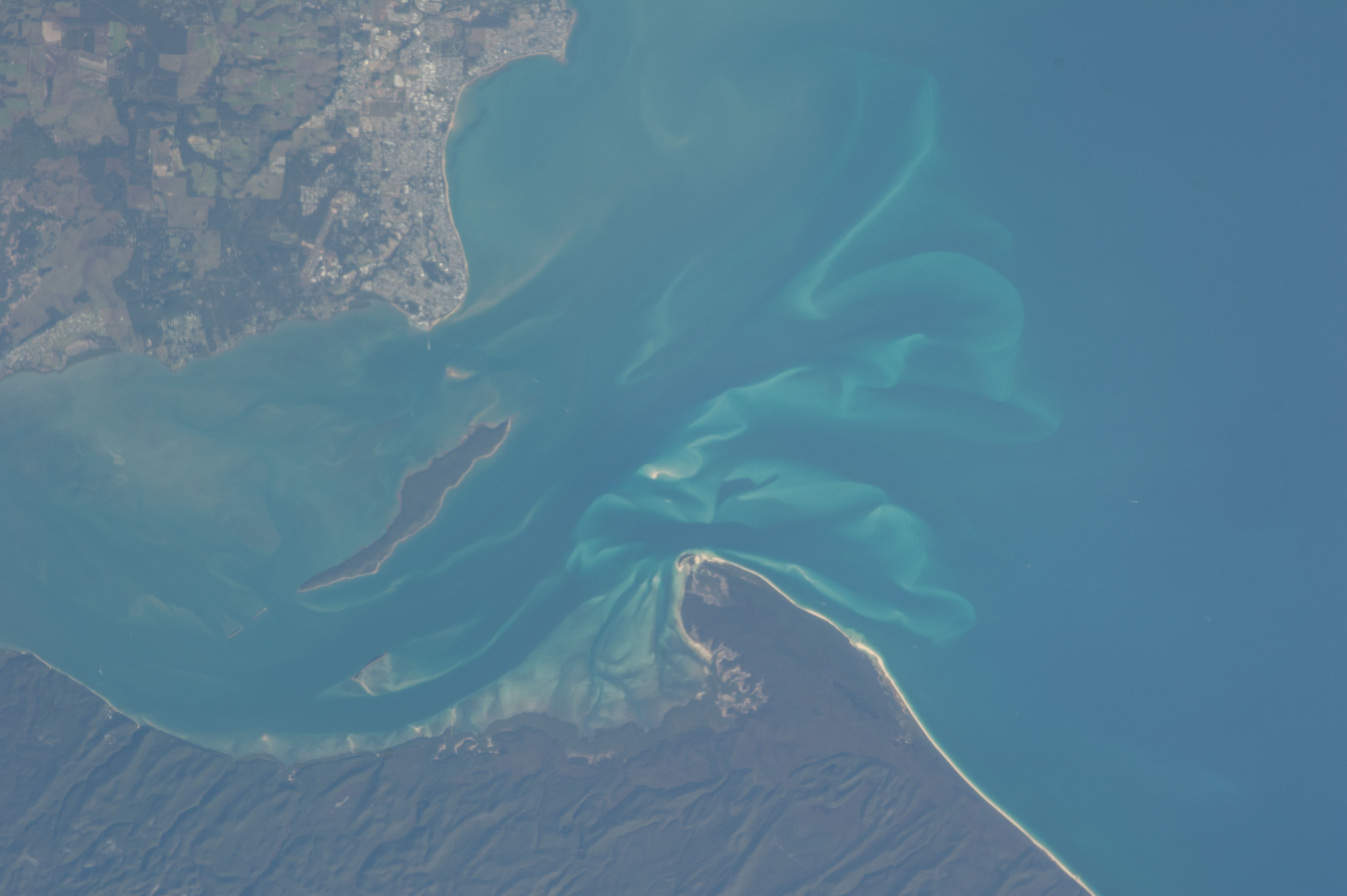 Hervey Bay, Queensland, Australia is featured in this image photographed by an Expedition 36 crew member on the International Space Station. The northern end of the Great Sandy Strait and Hervey Bay are highlighted in this photograph. The Strait is an estuary that separates the mainland coastline of the state of Queensland, Australia from neighboring Fraser Island. The mainland side of the Strait includes the city of Hervey Bay, visible at top center. Other communities that have become part of the larger metropolitan area include Scarness, Booral, and Urangan. A small vegetated island and shallow sand bars of the Great Sandy Strait are visible at center left, while submerged sands appear as bright blue flowing ribbons at center. A small, bright white exposure of sand is visible above the water level near the center point of the image. While once a major freighting center for the sugar cane industry, the local economy is now largely based on tourism, with whale watching tours a popular attraction. The Great Sandy Strait estuary provides habitat for breeding fish, crustaceans, turtles, and other sea life, as well as a wide variety of birds. Nearby Fraser Island is the world's largest sand island and a World Heritage site.